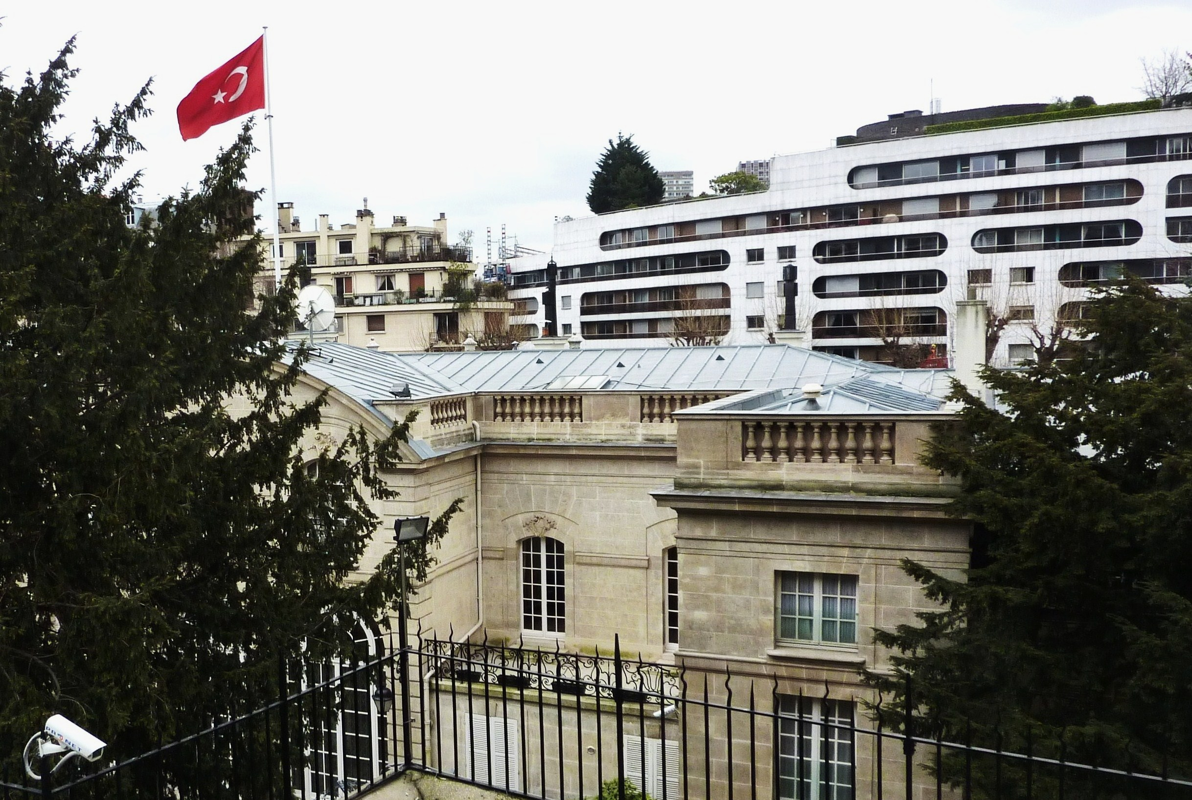 Turkish embassy in France, 16 avenue de Lamballe, Paris